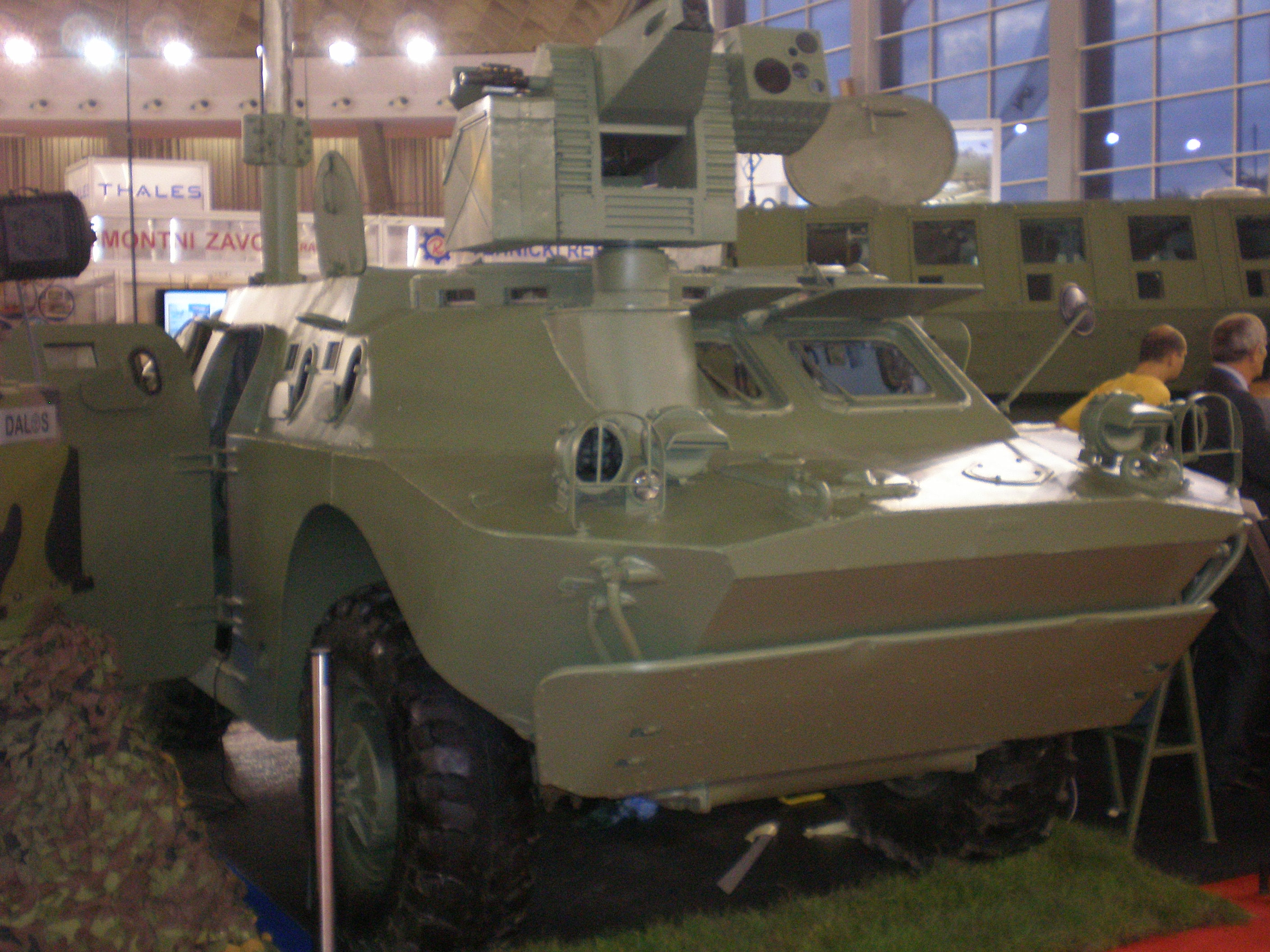 Kurijak modification of BRDM-2 on display at "Partner 2009" military fair.